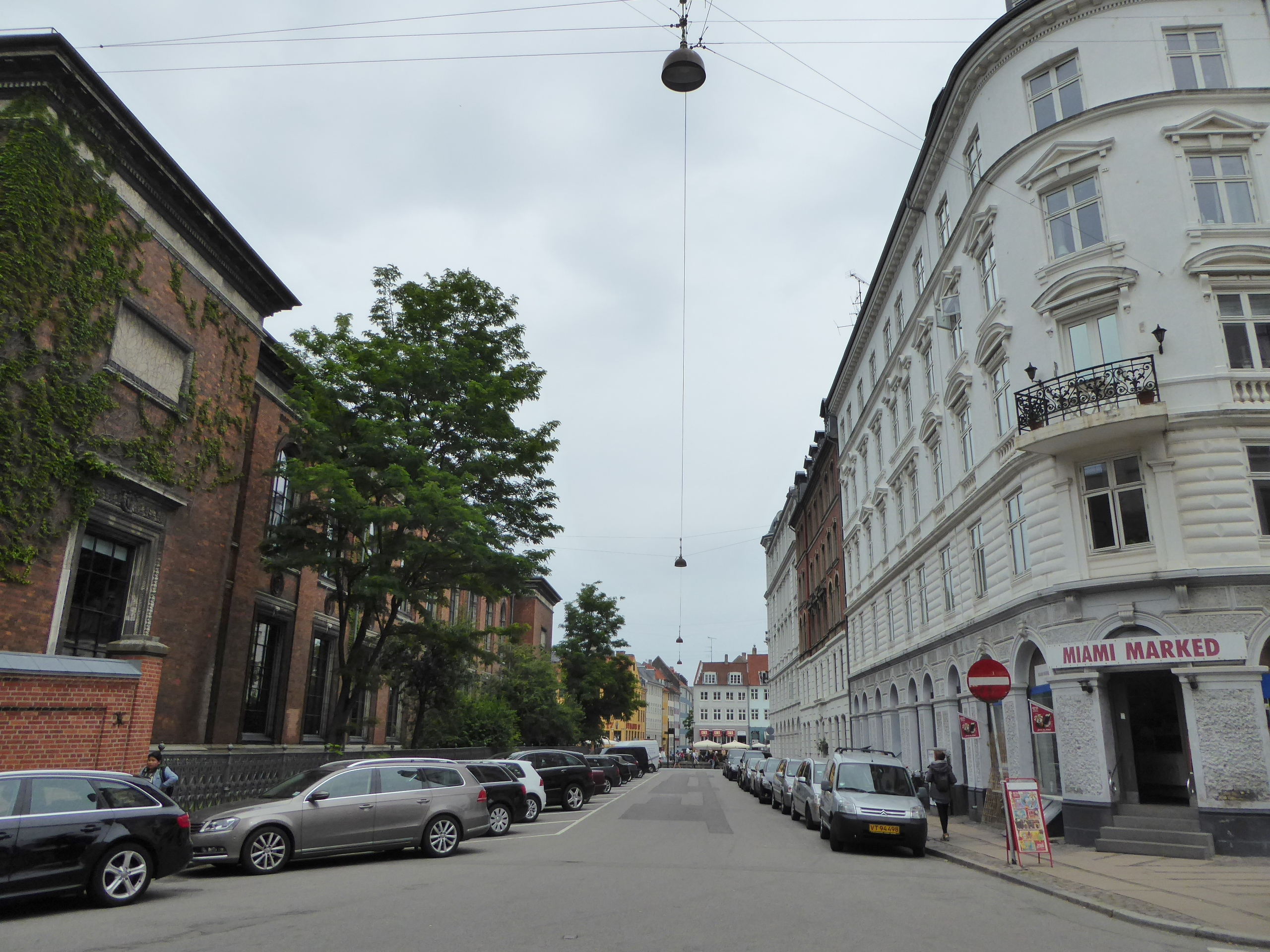 The street Heibergsgade in Indre By in Copenhagen.